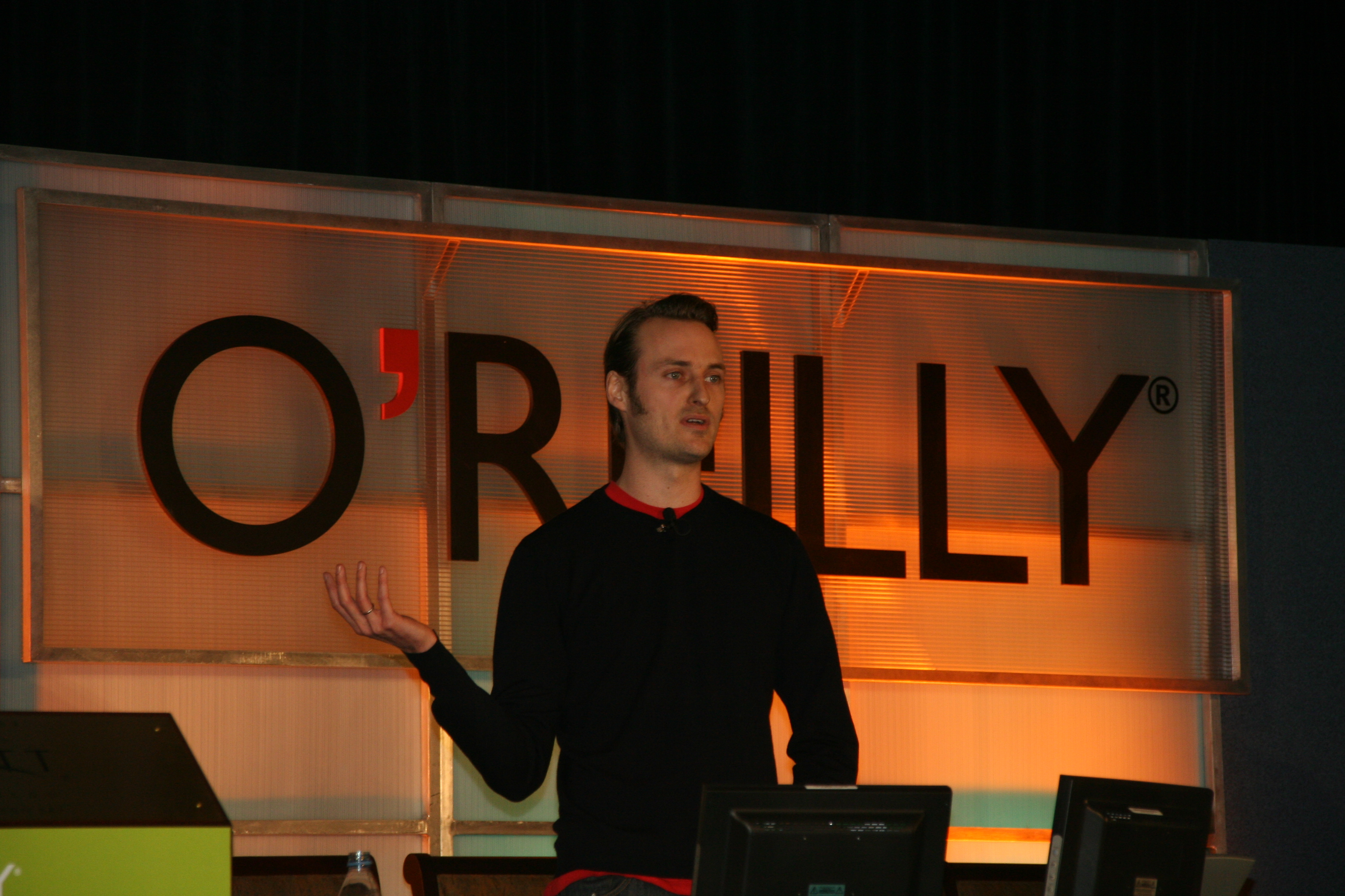 Felix Miller is the co-founder and CEO of Last.fm. He served at Last.Fm from its founding in 2000, though its sale to CBS Interactive in 2007. He resigned from the company in June of 2009.